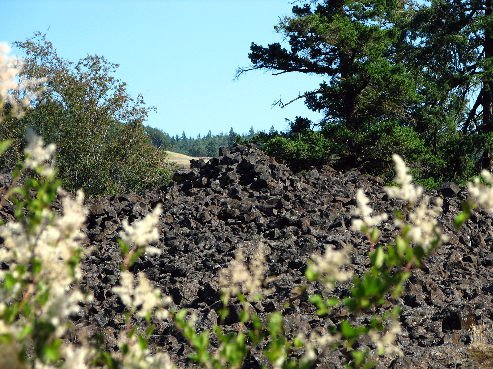 The Mosier Mounds Complex near Mosier, Oregon, United States, is an archaeological site listed on the US National Register of Historic Places.